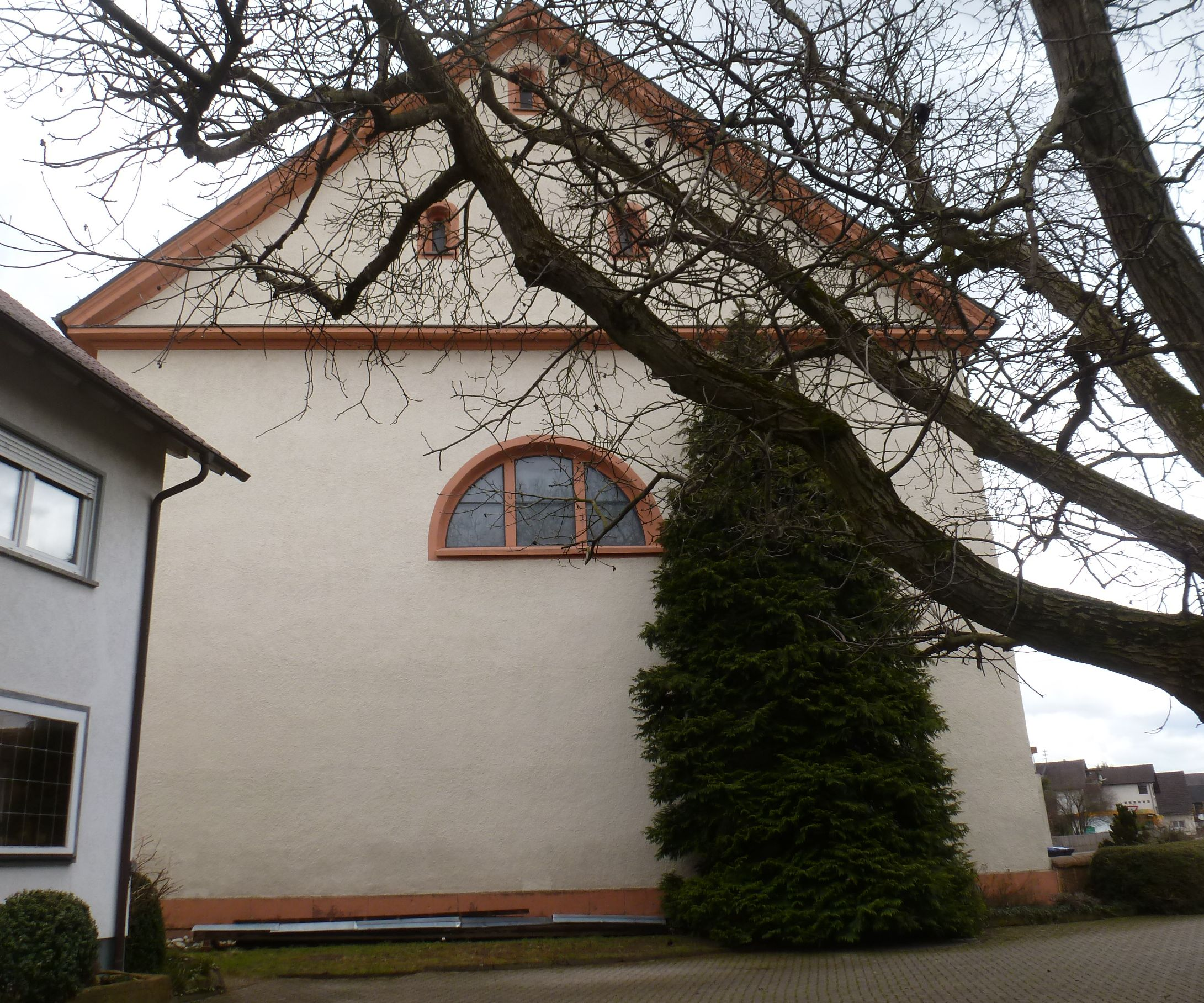 Church St. Nikolaus (Ichenheim, Neuried, Baden-Württemberg, Germany), from west